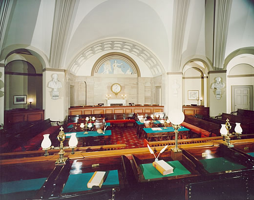 Old Supreme Court Chamber viewed from east taken from Architect of the Capitol site on Old Supreme Court Chamber.